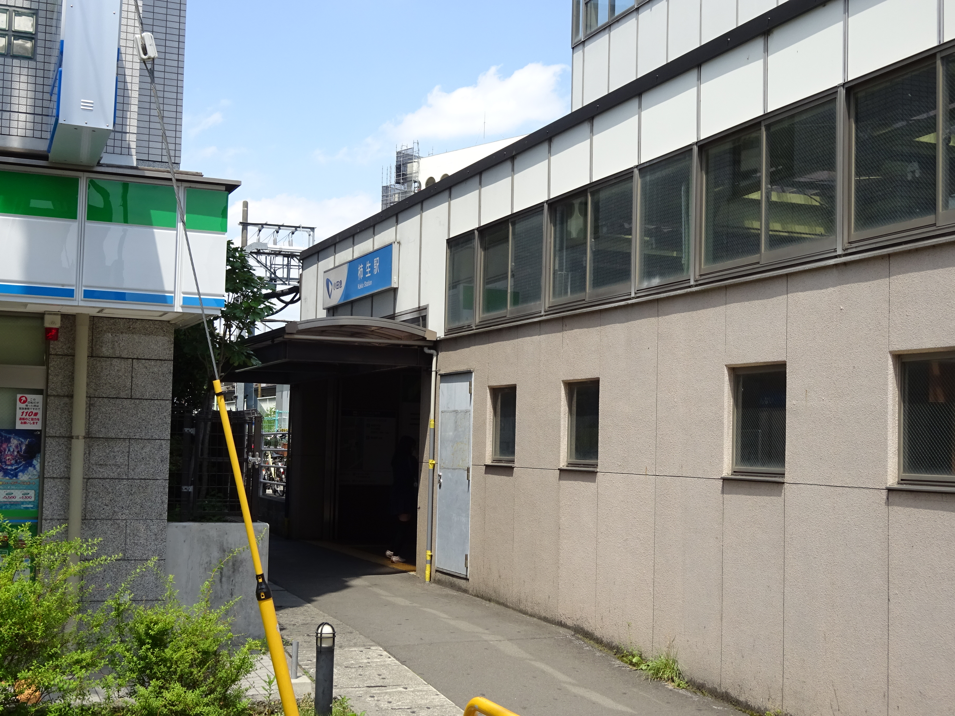 North entrance of Kakio Station